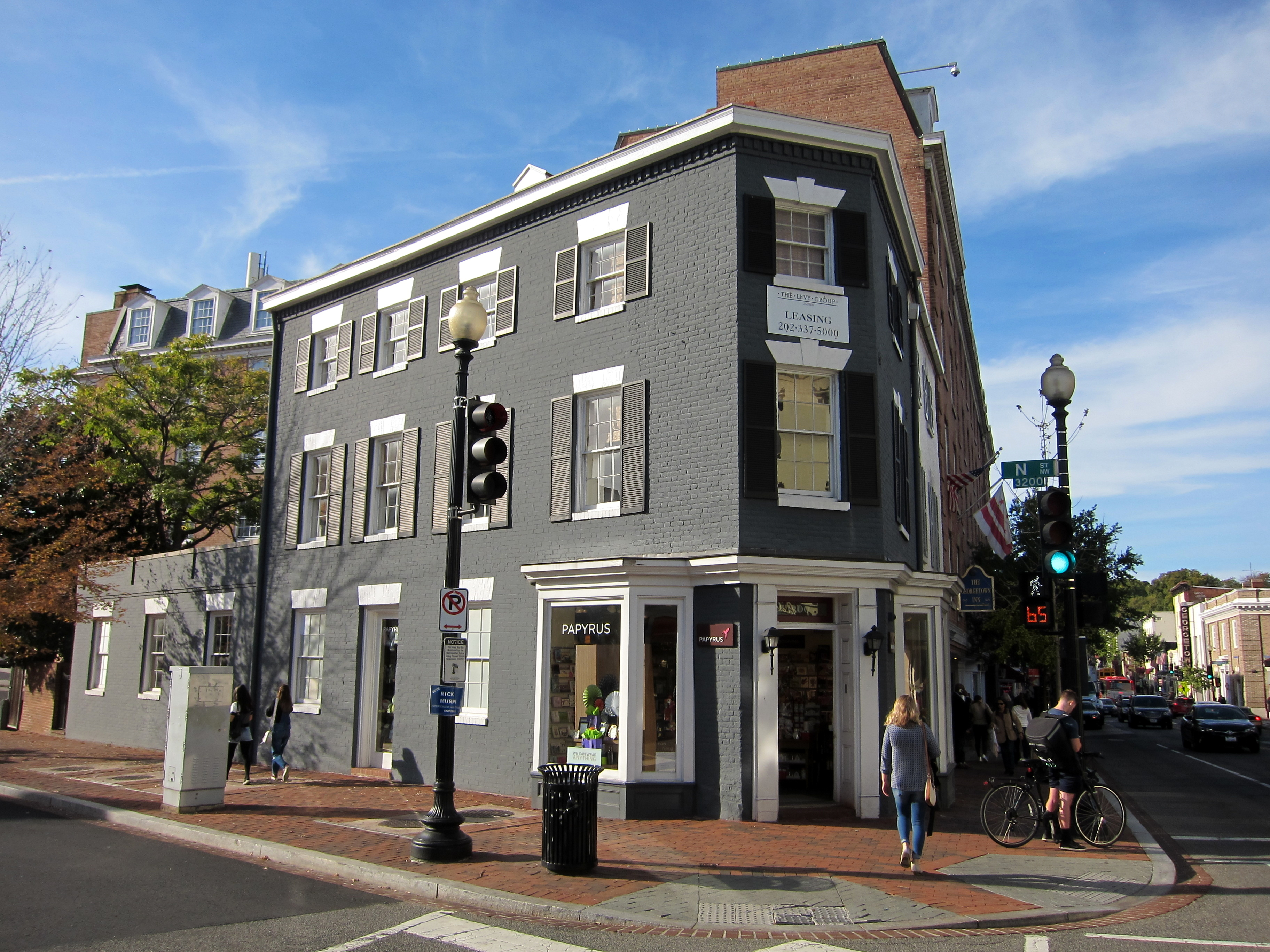 A PAPYRUS store located at 1300 Wisconsin Avenue NW in the Georgetown neighborhood of Washington, D.C. Constructed in 1817, the building is historically known as the William Wilson Corcoran Store. It was added to the District of Columbia Inventory of Historic Sites on November 8, 1964, and is a contributing property to the Georgetown Historic District, listed on the National Register of Historic Places on May 28, 1967.